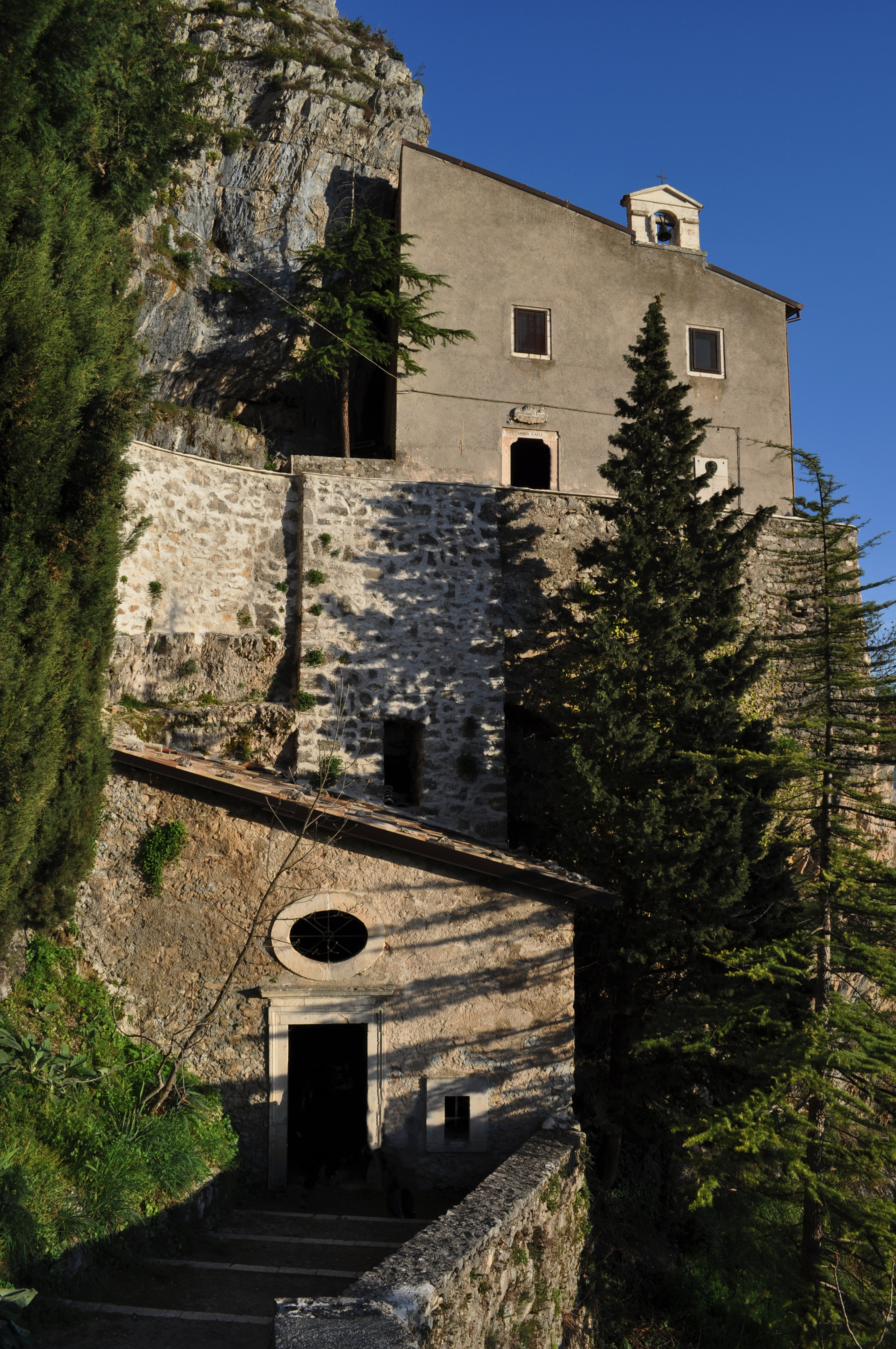 Known as the hermitage of Celestine V is originally dedicated to St. Onofrio. Pietro da Morrone, later Pope Celestine V, elected him to his favorite haunt because near the monastery of Santo Spirito in Morrone.